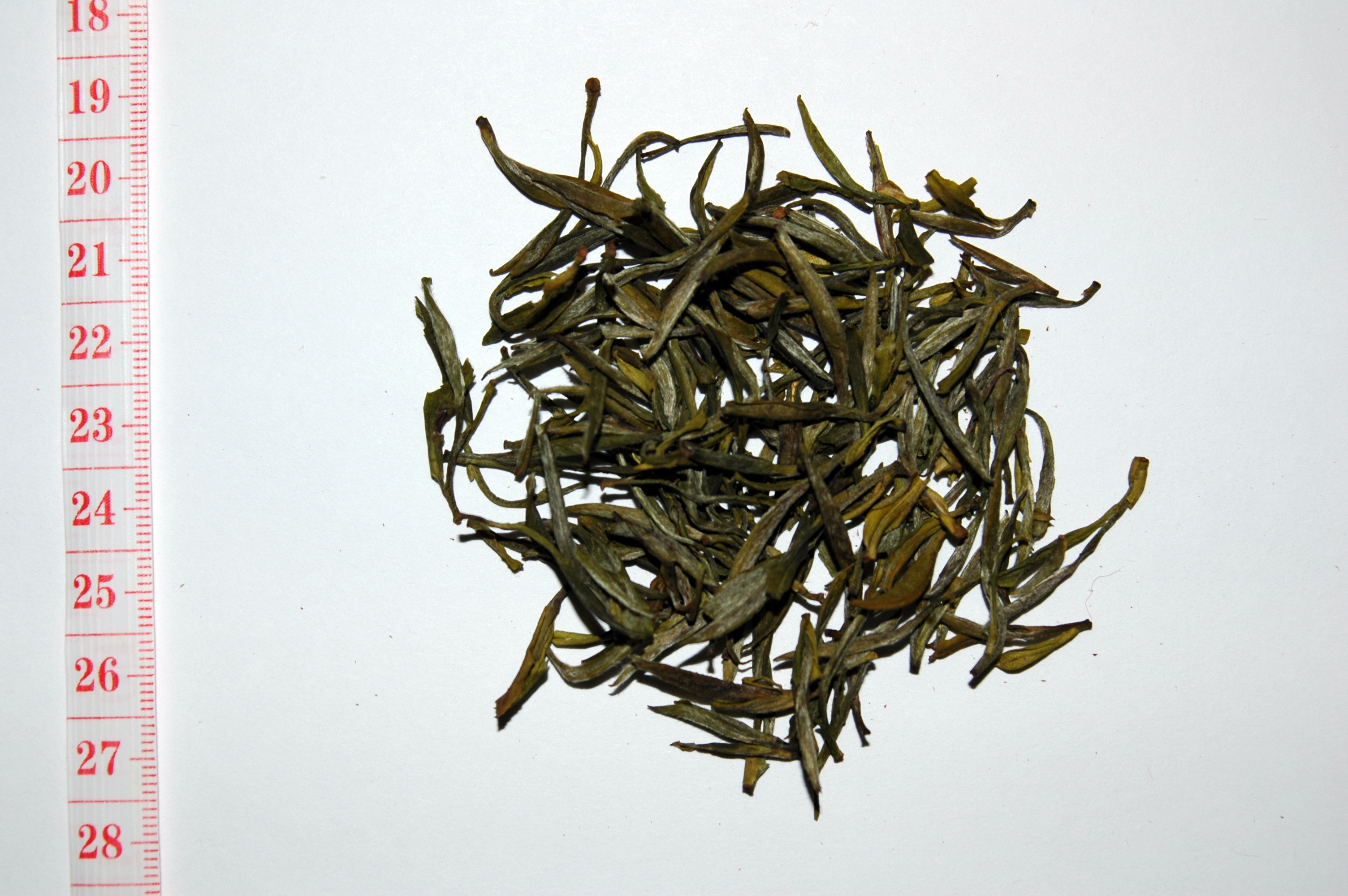 Picture of Huang Shan Mao Feng tea